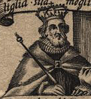 Denis I of Portugal